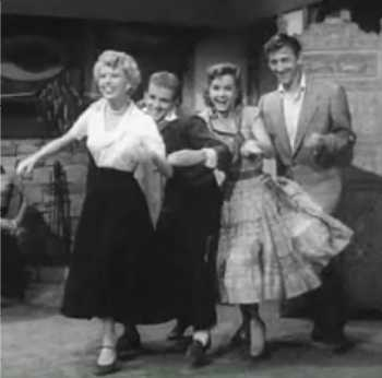 Cropped screenshot of Barbara Ruick, Bob Fosse, Debbie Reynolds and Bobby Van from the trailer for the film The Affairs of Dobie Gillis.